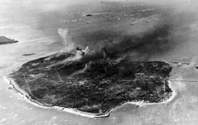 Landing craft head for beach at Namur island, Kwajalein Atoll, on 1 February 1944.